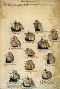 Depiction of the 6th Portuguese India Armada (1504 fleet led by Lopo Soares de Albergarie) from the Livro das Armadas (Academia de Ciencias de Lisboa)